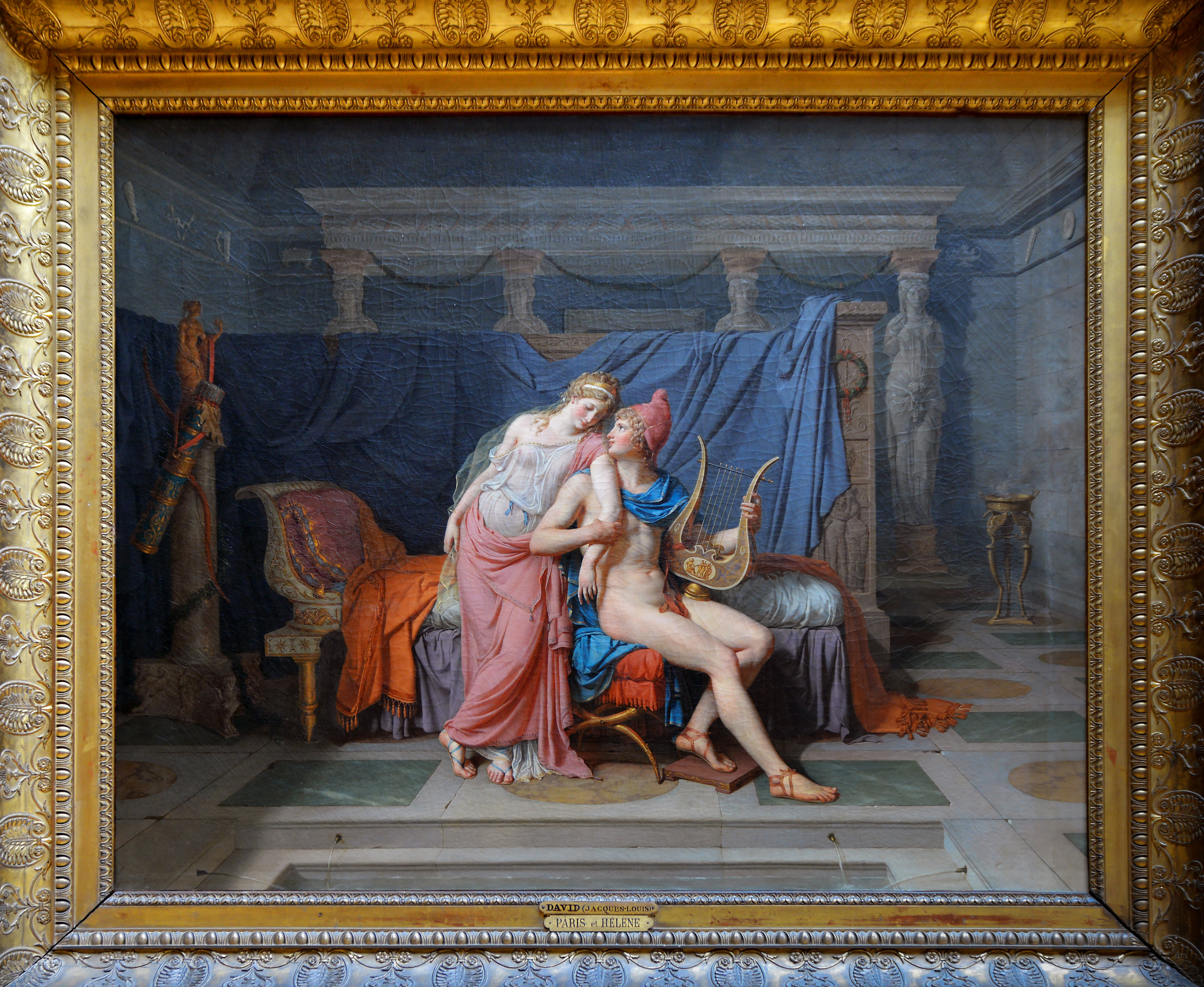 The Love of Helen and Paris (detail)